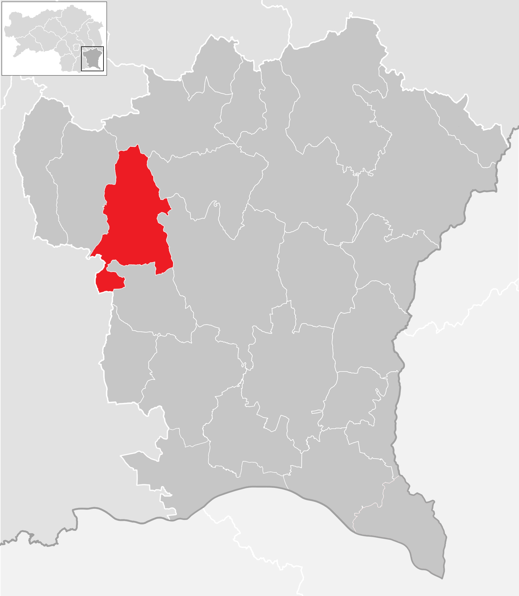 district Südoststeiermark